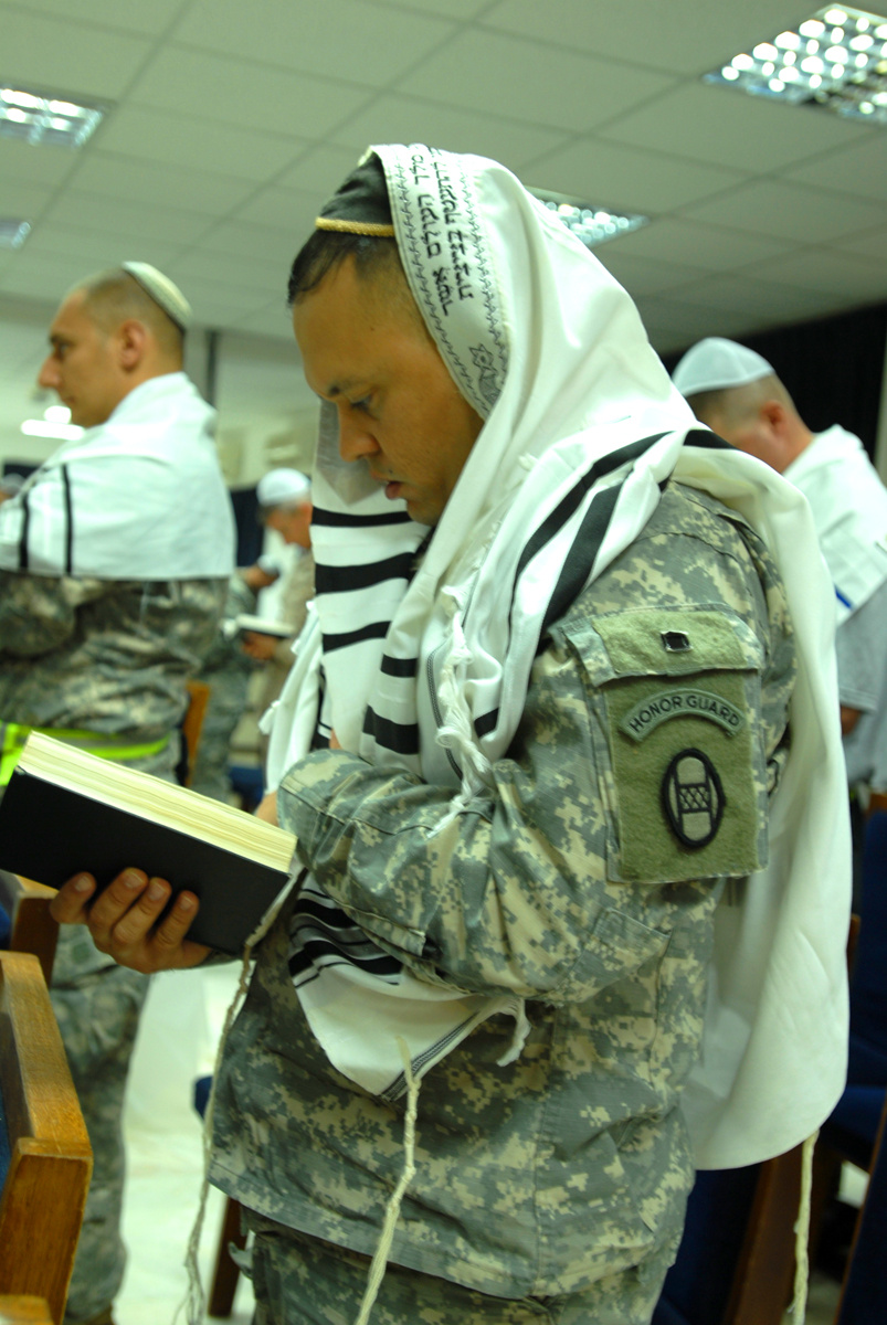 VICTORY BASE COMPLEX, Iraq - Spc. Lourival Ledo, a supply specialist, from Charlotte, N.C., attached to the 113th Field Artillery Battalion, 30th Heavy Brigade Combat Team, prays with the traditional tallit, the Jewish prayer shawl, and yamakah head cover during a service here, Sept. 18, to celebrate Rosh Hashanah, the Jewish New Year. "I was taught by my father this way of wearing the the tallit. It's the way I learned," said Ledo.